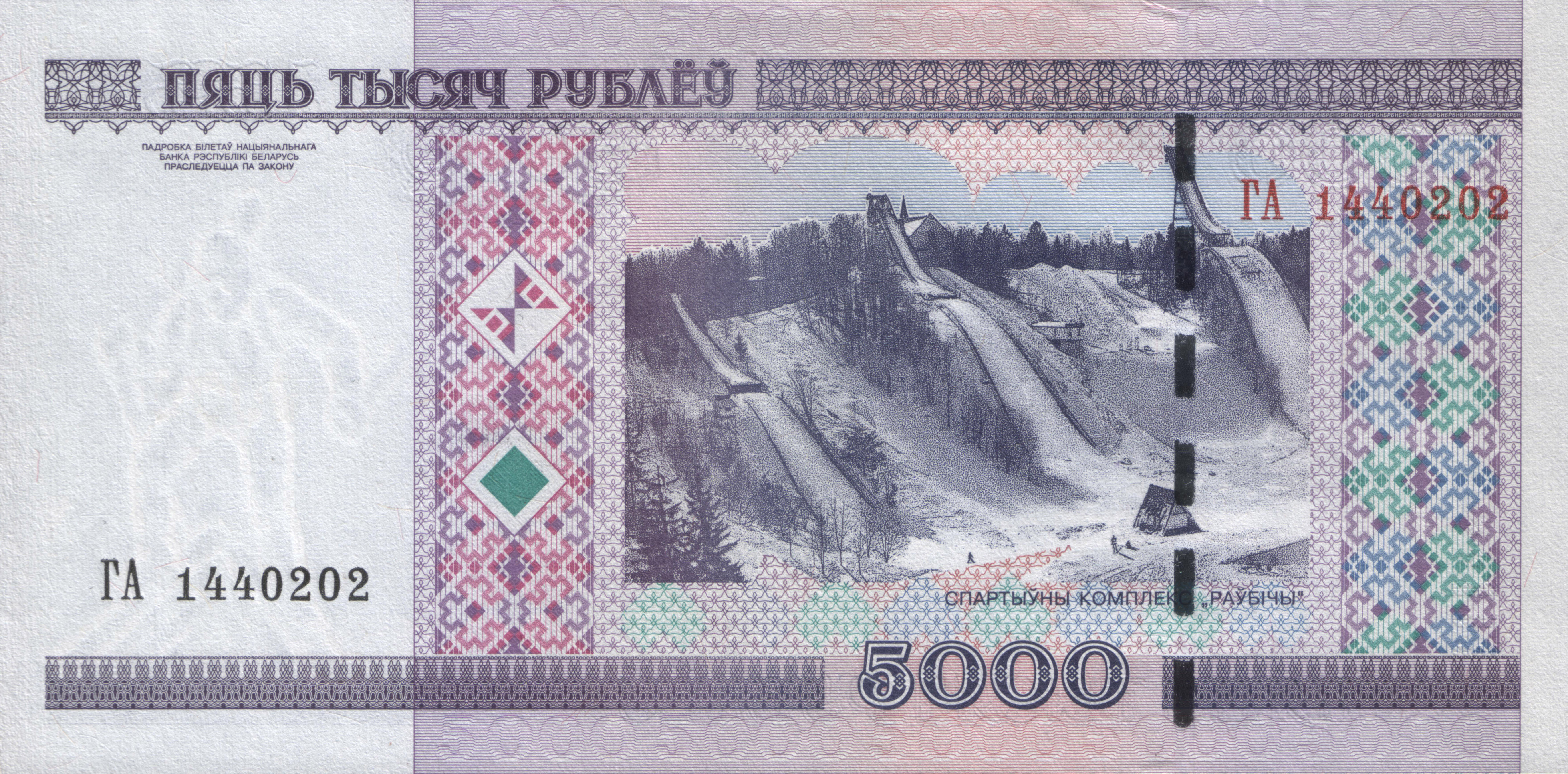 5 000 roubles of Belarus (2011)